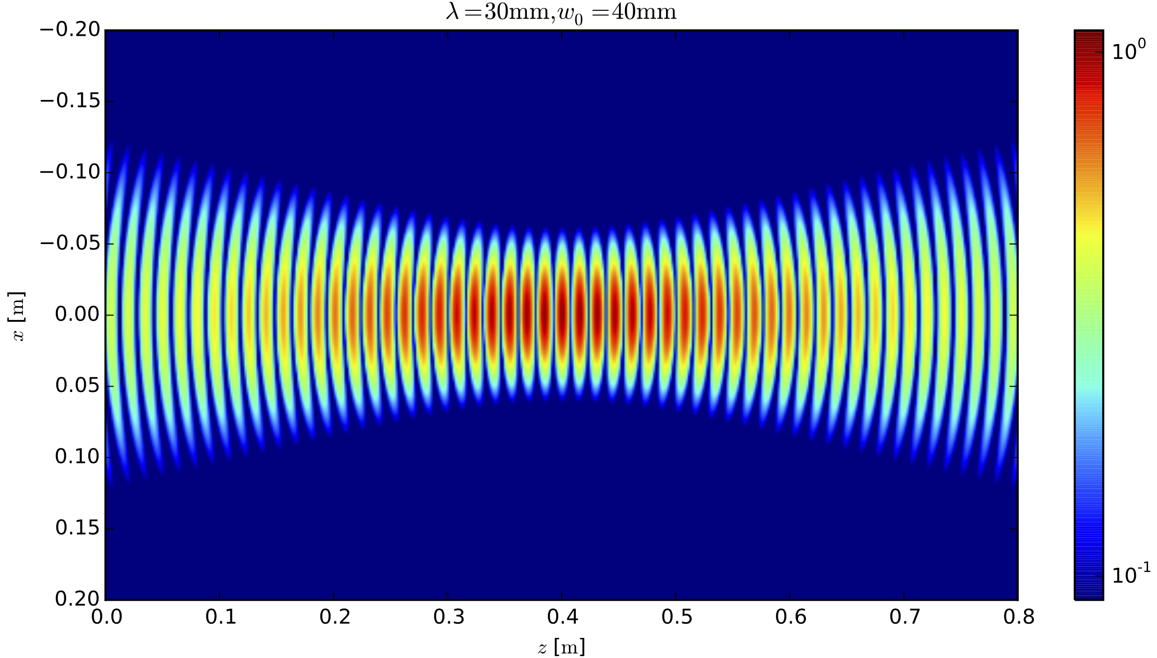 Absolute value of the real part of a gaussian beam